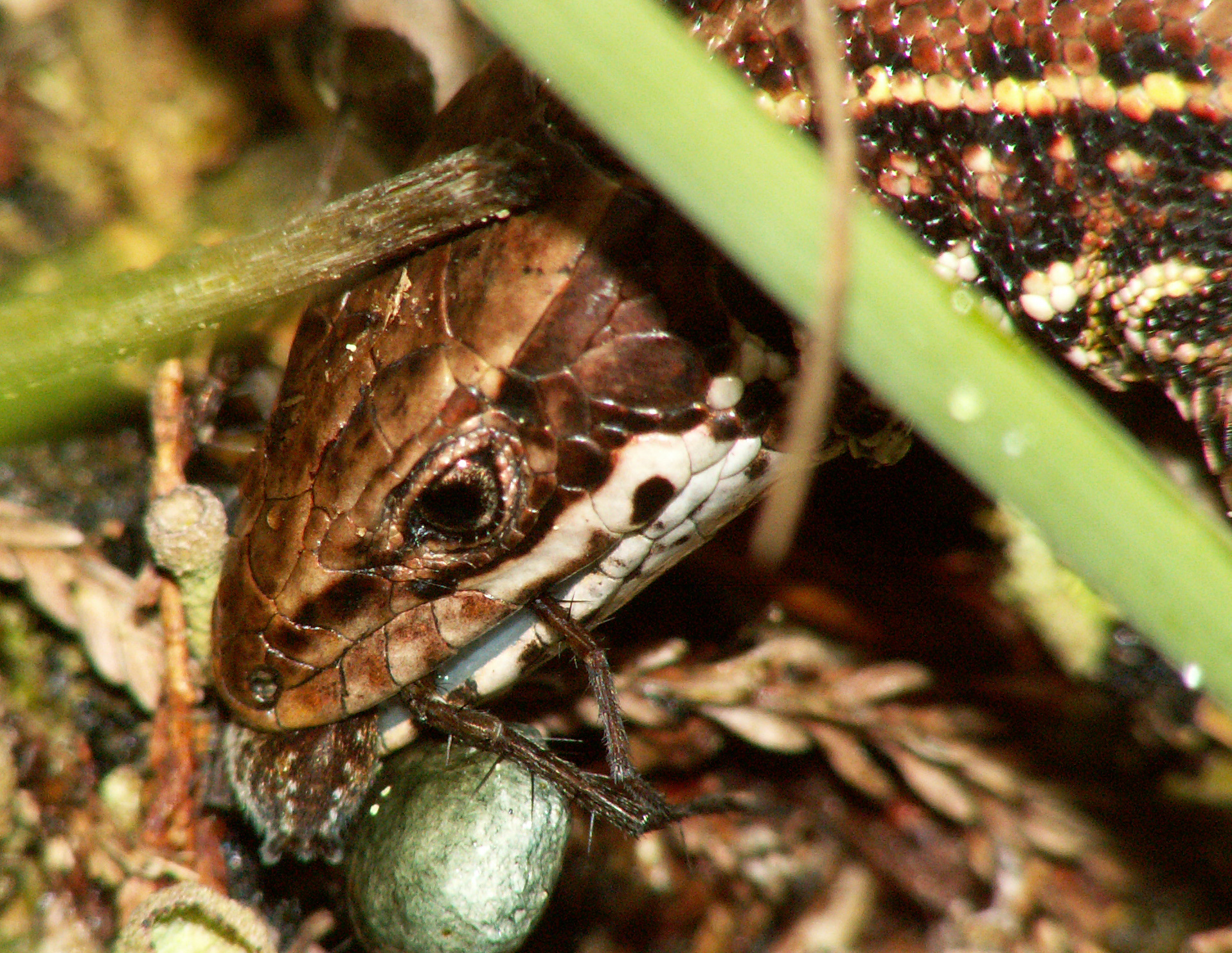 Zootoca vivpara eating former member of the Lycosidae, Drenthe, The Netherlands